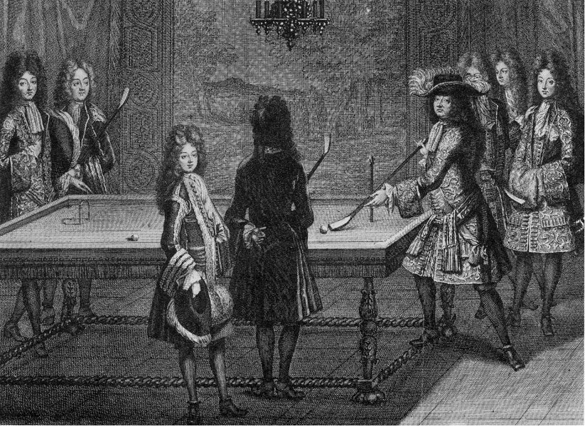 Louis XIV playing billard (1694). The future minister Michel Chamillart is seen from his back